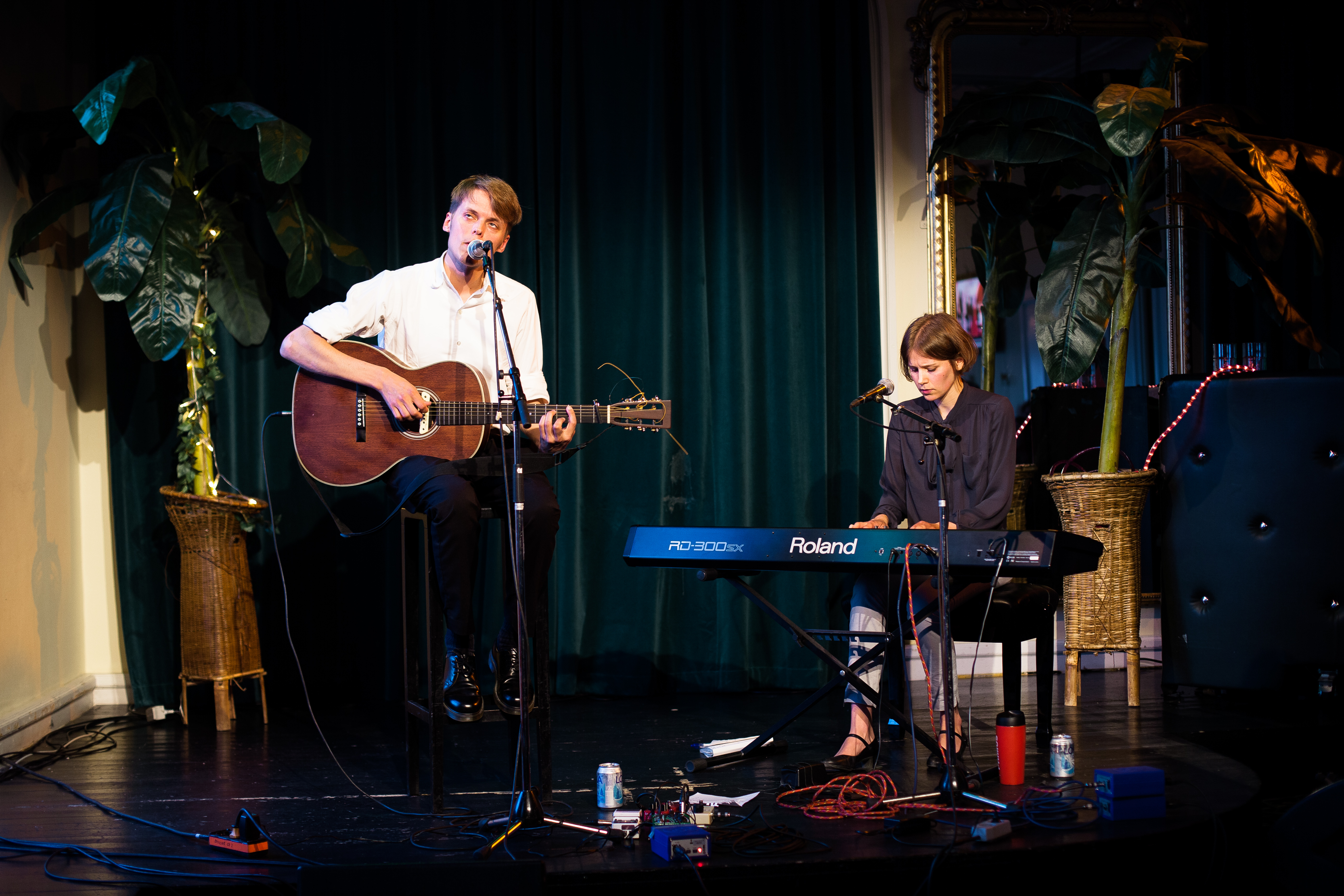 Vasas flora and fauna performing at Södra Teatern on June 12, 2013